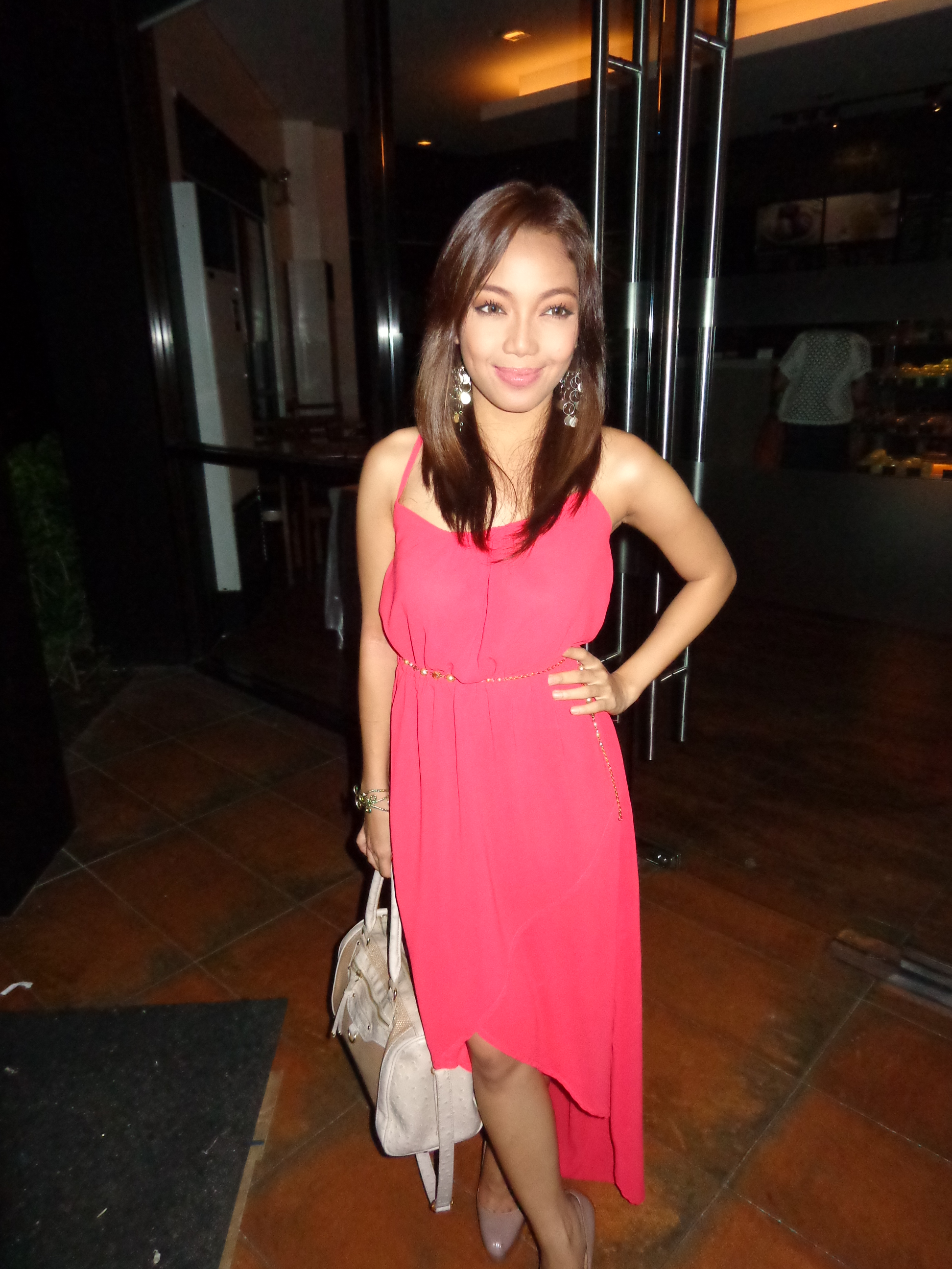 Jonalyn Viray after her show "a night of inspiration with Jonalyn Viray" taken outside the venue using a sony cybershot dsc-h90